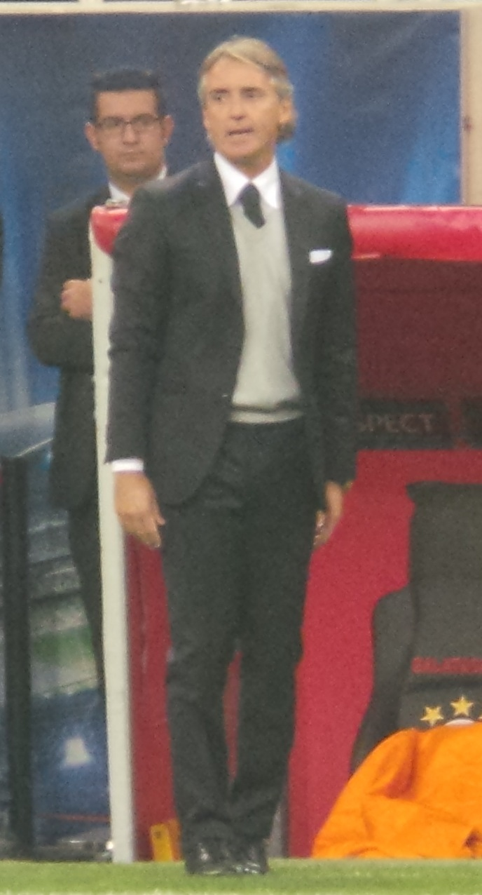 Roberto Mancini at GS- FC Copenhagen match